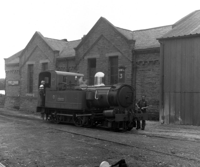 Locomotive No 13 at Port Erin